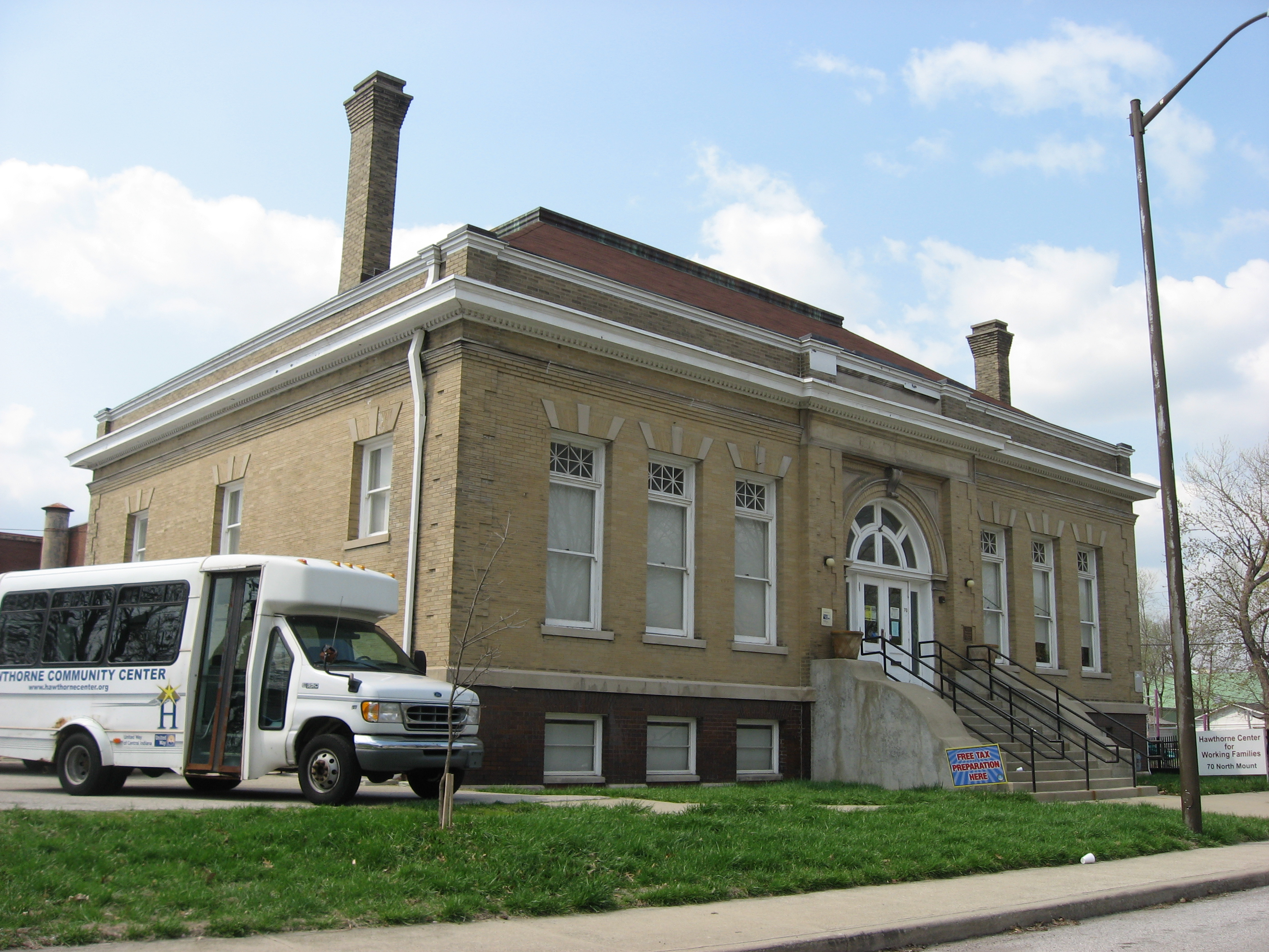 Front and southern side of the Hawthorne Branch Library No. 2, located at 70 N. Mount Street in Indianapolis, Indiana, United States. Built in 1911, it is listed on the National Register of Historic Places.